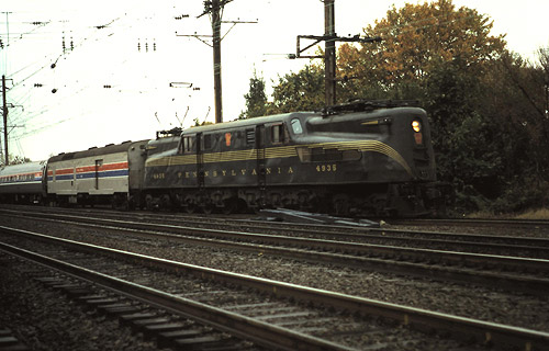 The National Limited switching to the Port Road Branch at Perryville station in the 1970s